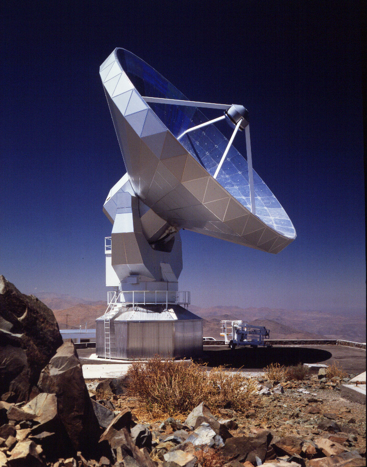 The Swedish ESO Submillimetre Telescope at La Silla Observatory in Chile.